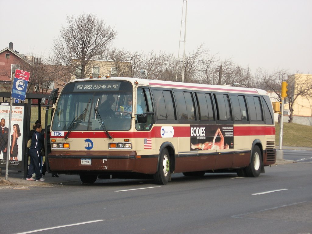 1986 MTA Bus Company GMC RTS #1136 (ex-Jamaica Buses 529) operates on the Q19A line in East Elmhurst, NY.